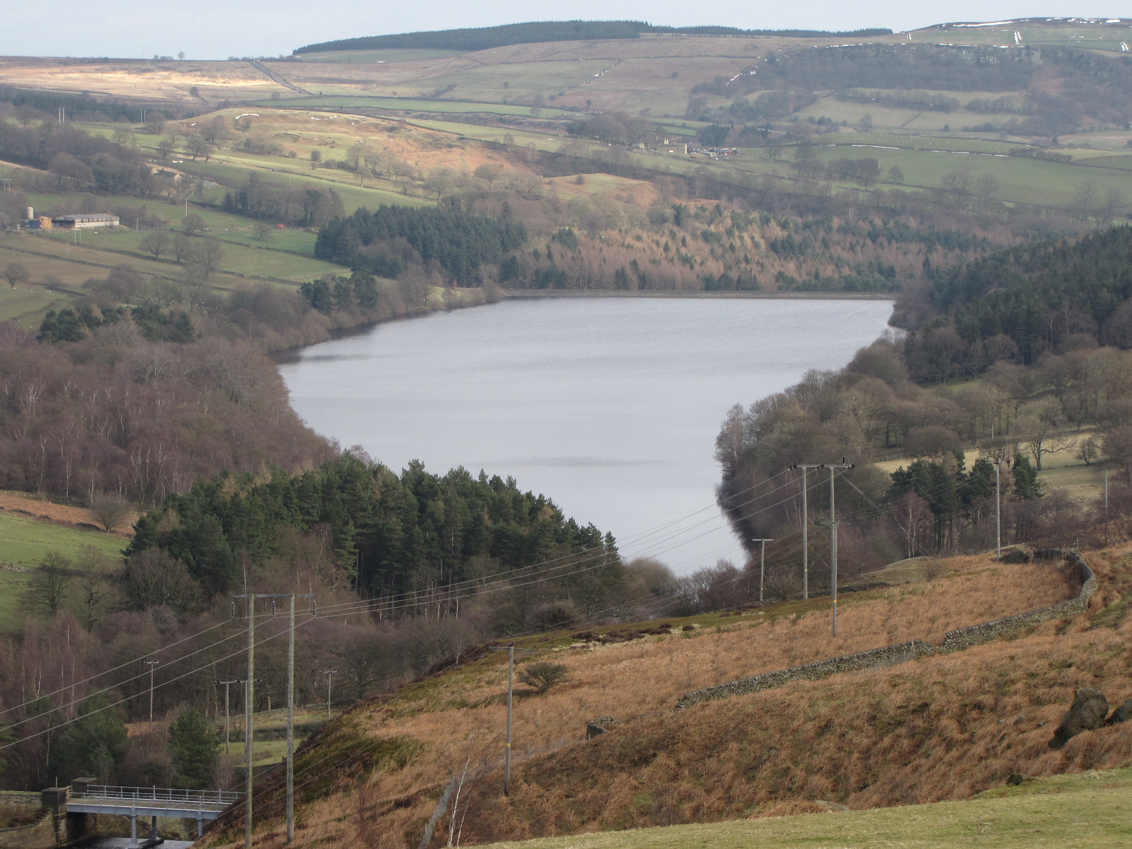 A view looking down Bradfield Dale from Boots Folly in South Yorkshire, England. Dale Dike Reservoir is in view.